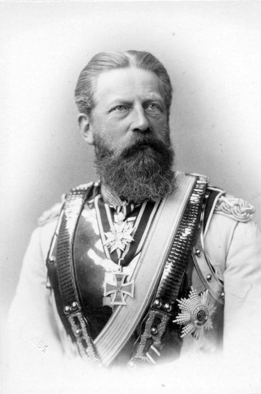 Frederick III, German Crown Prince and Crown Prince of Prussia, later German Emperor and King of Prussia (GND 118535668)